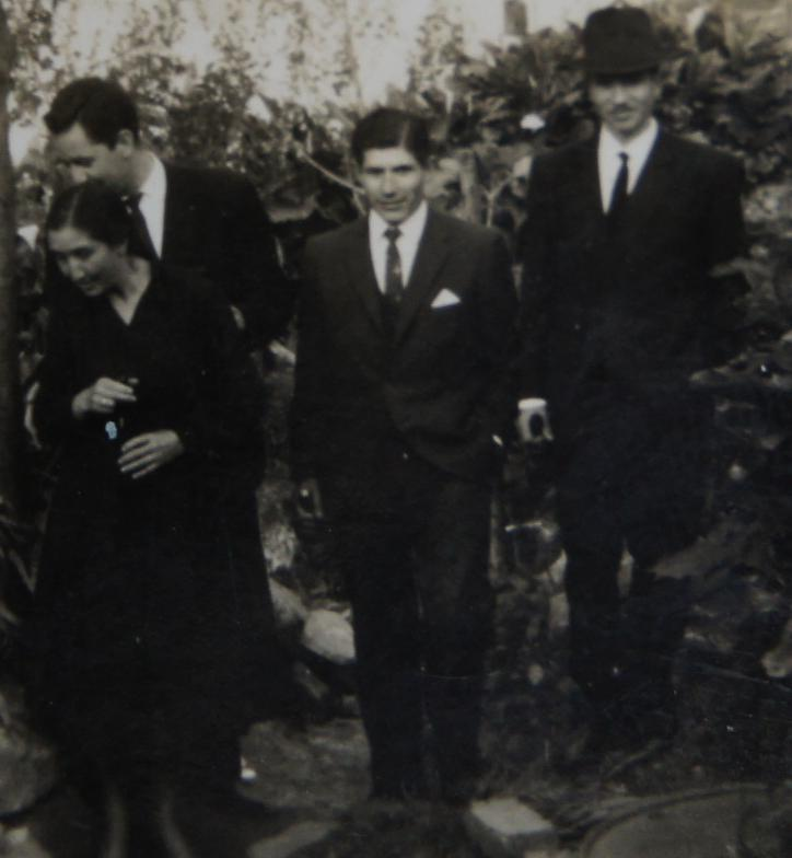 chachacos, bogotanos